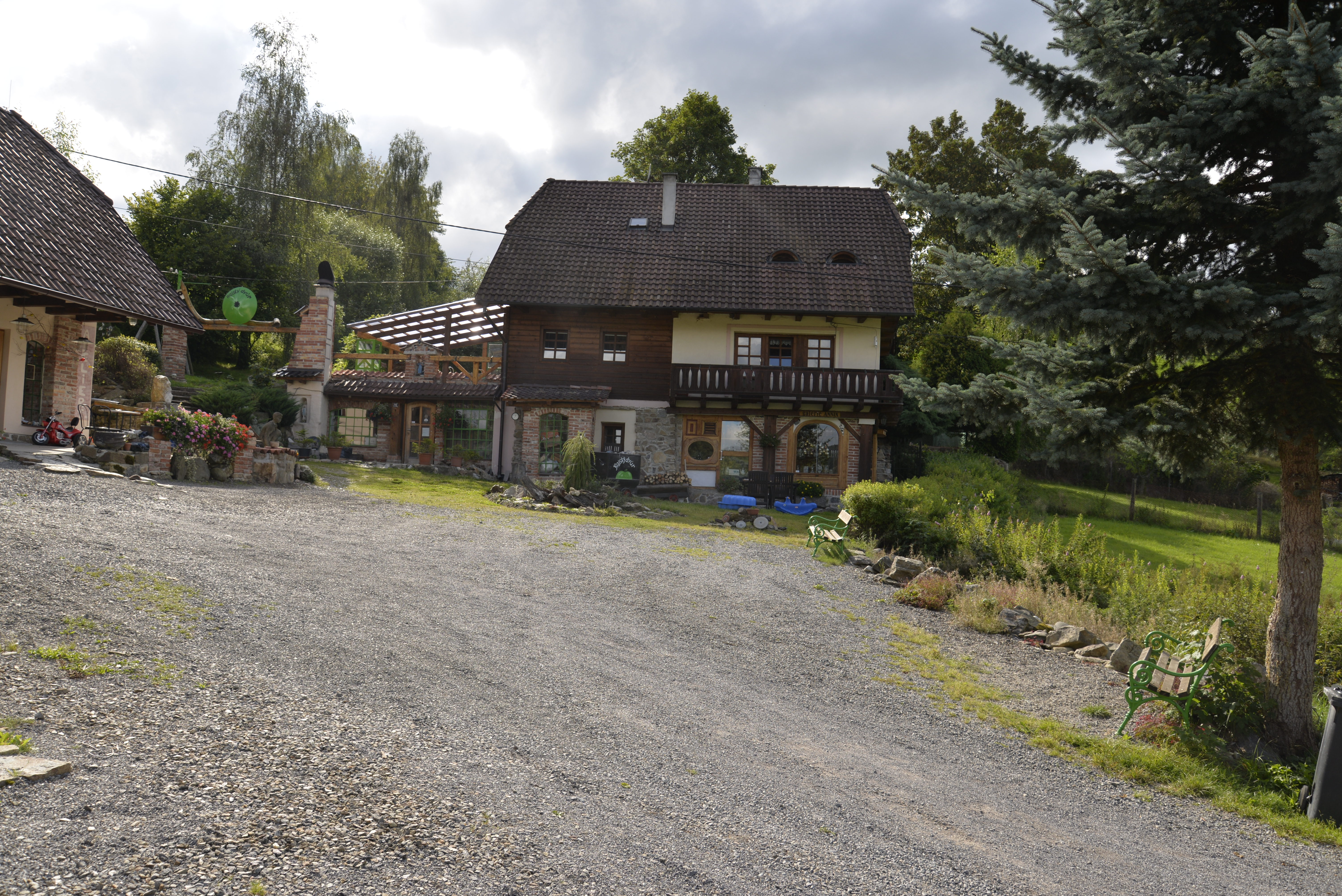 Rajsko is a small village, part of municipality Dlouhá Ves in Klatovy District